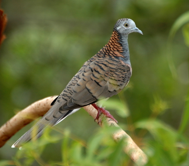 Bar-shouldered Dove (Geopelia humeralis) Kobble Creek, South-east Queensland, Australia